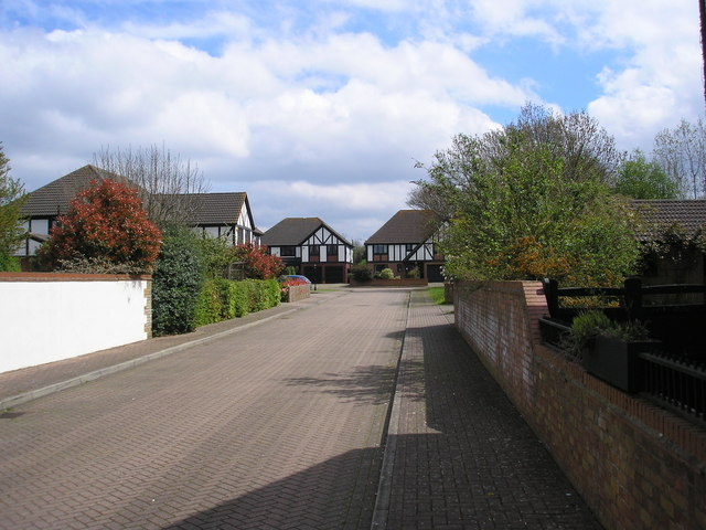 Kilnwood, Halstead, Kent. Kilnwood is a recent cul-de-sac development of high-class family homes in this popular Kentish village